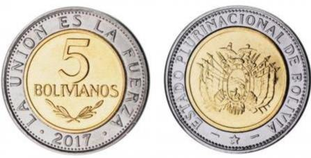 5 bs coin